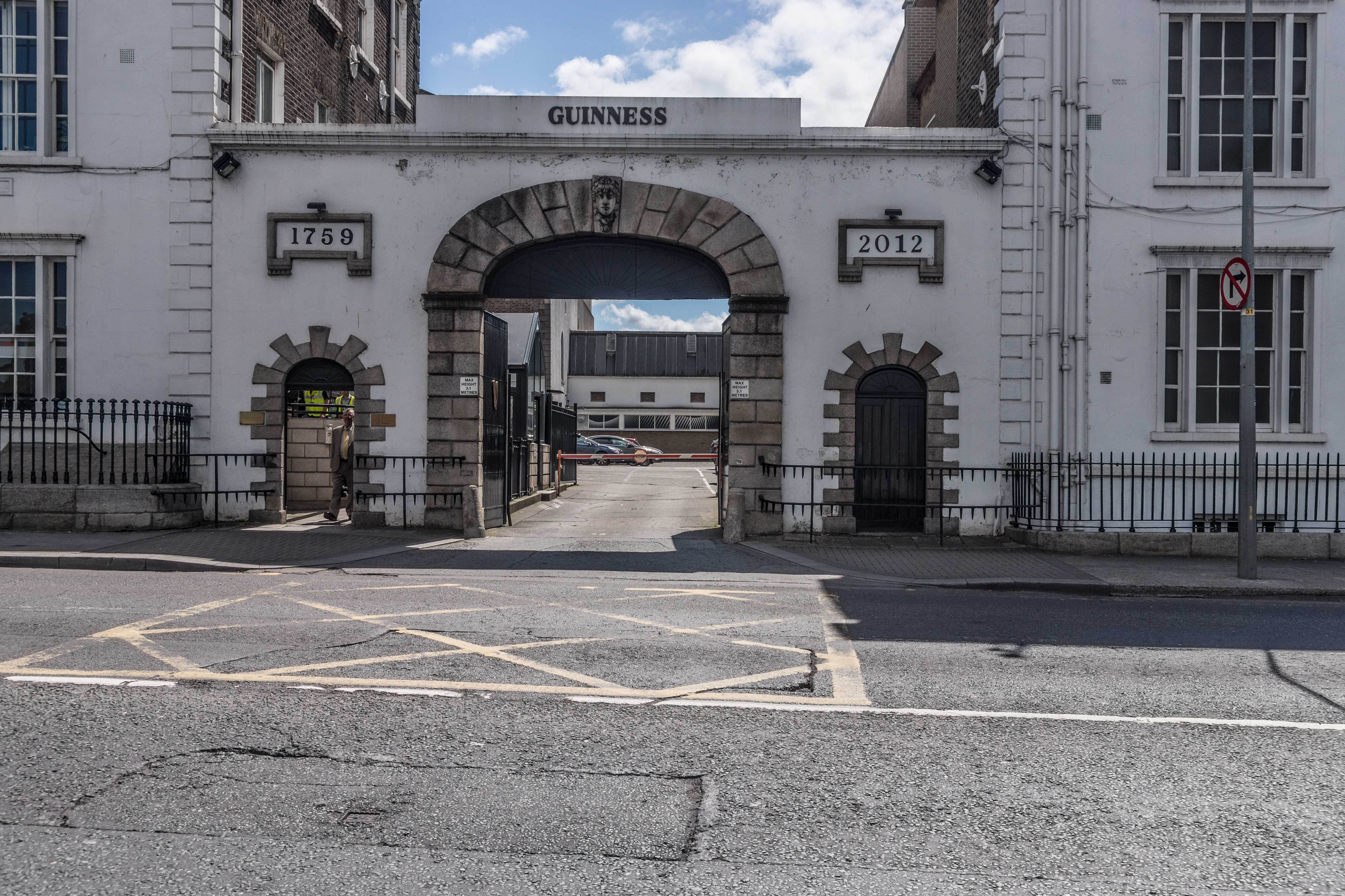 Guinness Brewery St James Gate entrance dated 1759-2012